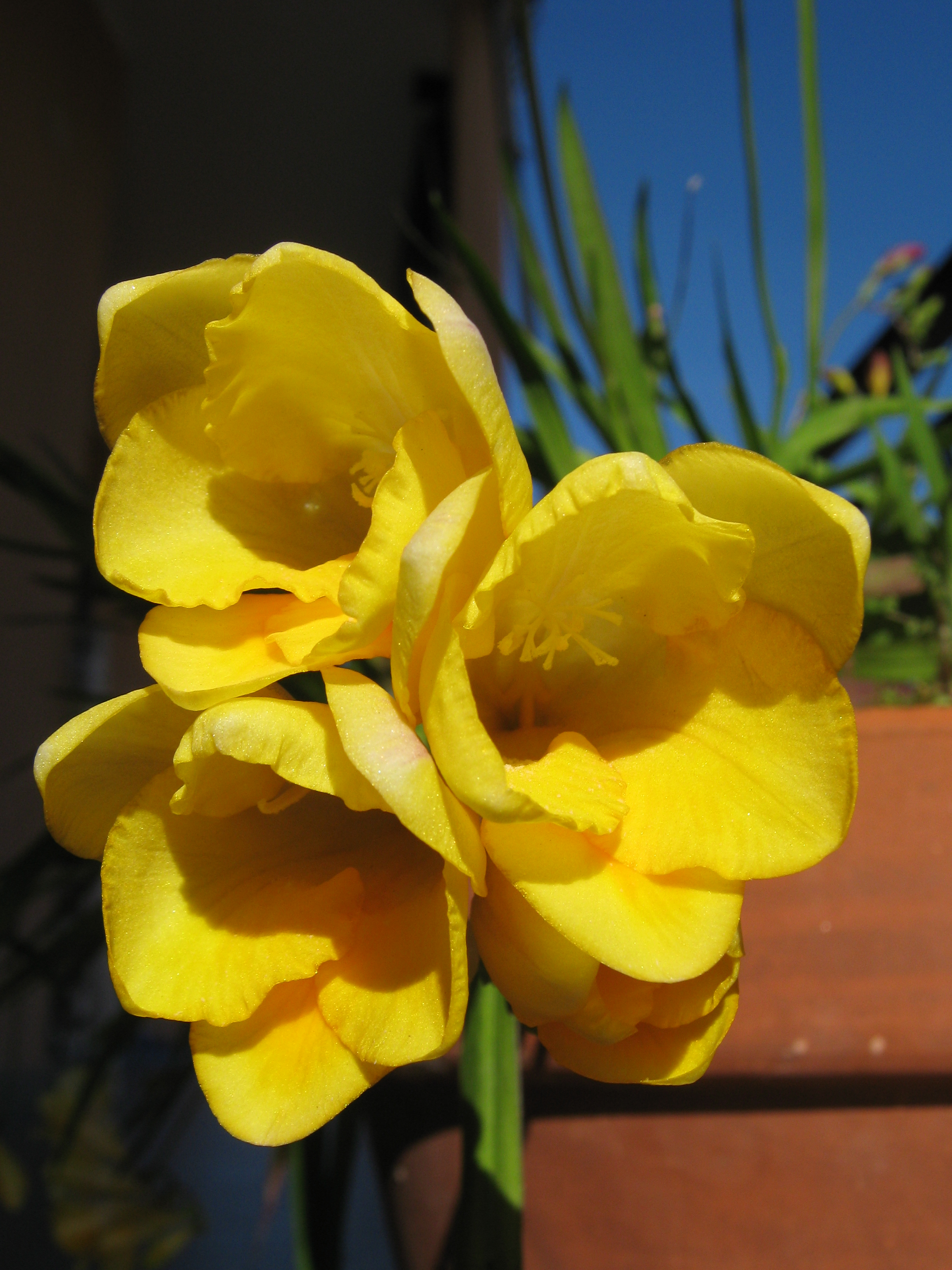 Freesia flower.